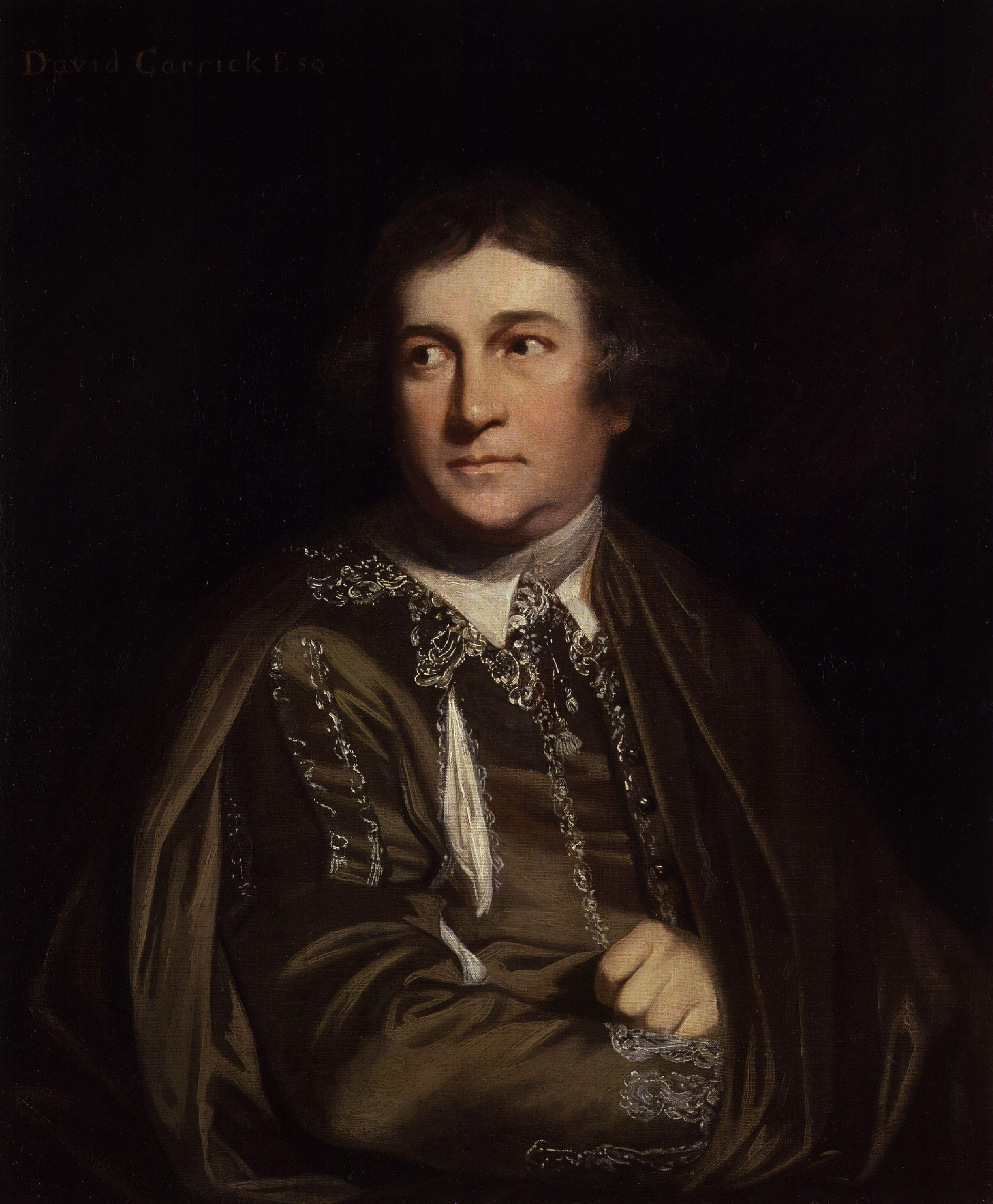 David Garrick as Kitely in 'Every Man in his Humour, by Sir Joshua Reynolds (died 1792), given to the National Portrait Gallery, London in 1966. All images in this batch have been confirmed as author died before 1939 according to the official death date listed by the NPG.